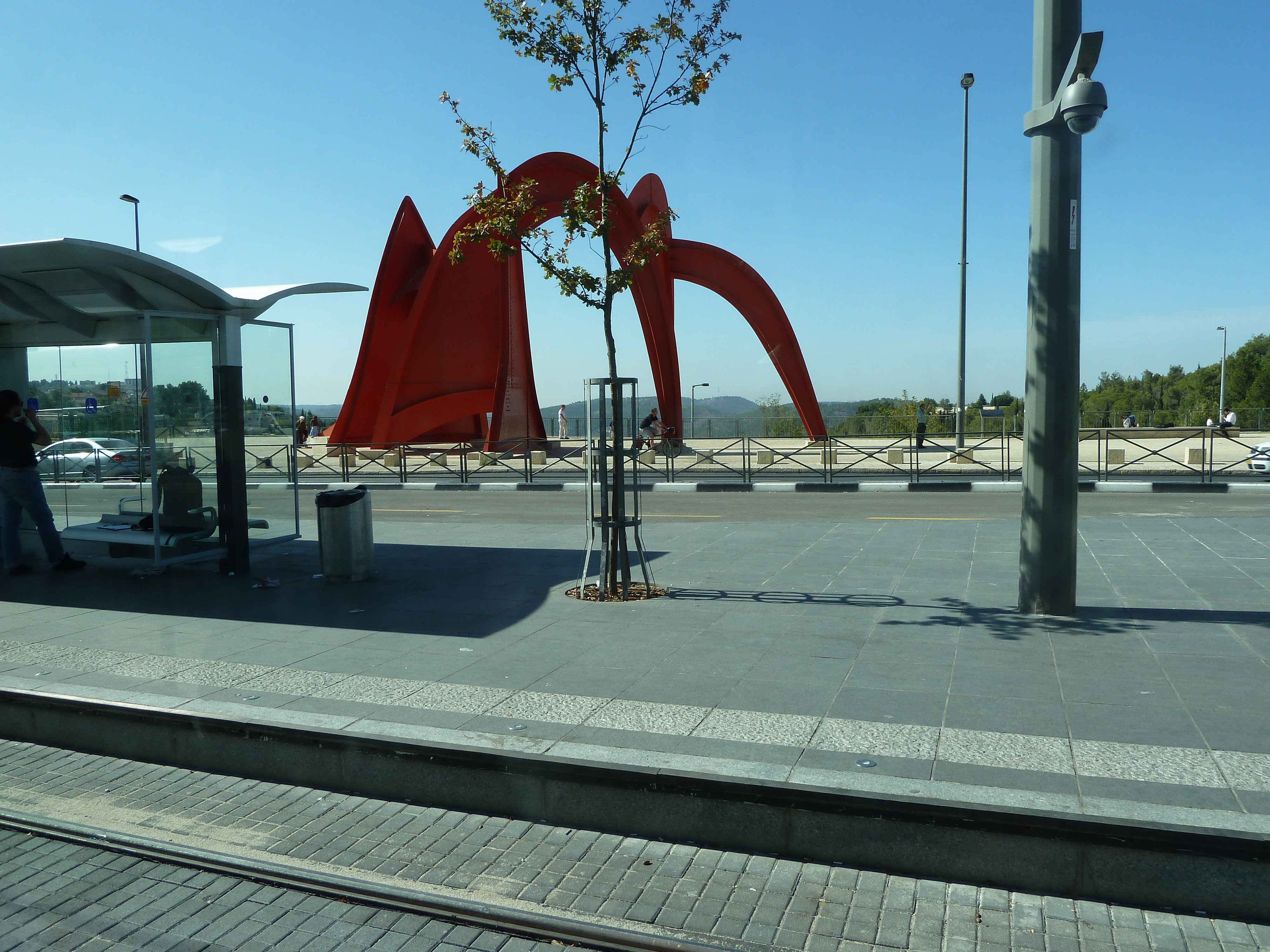 Gesture to Jerusalem through the window of the Light Rail